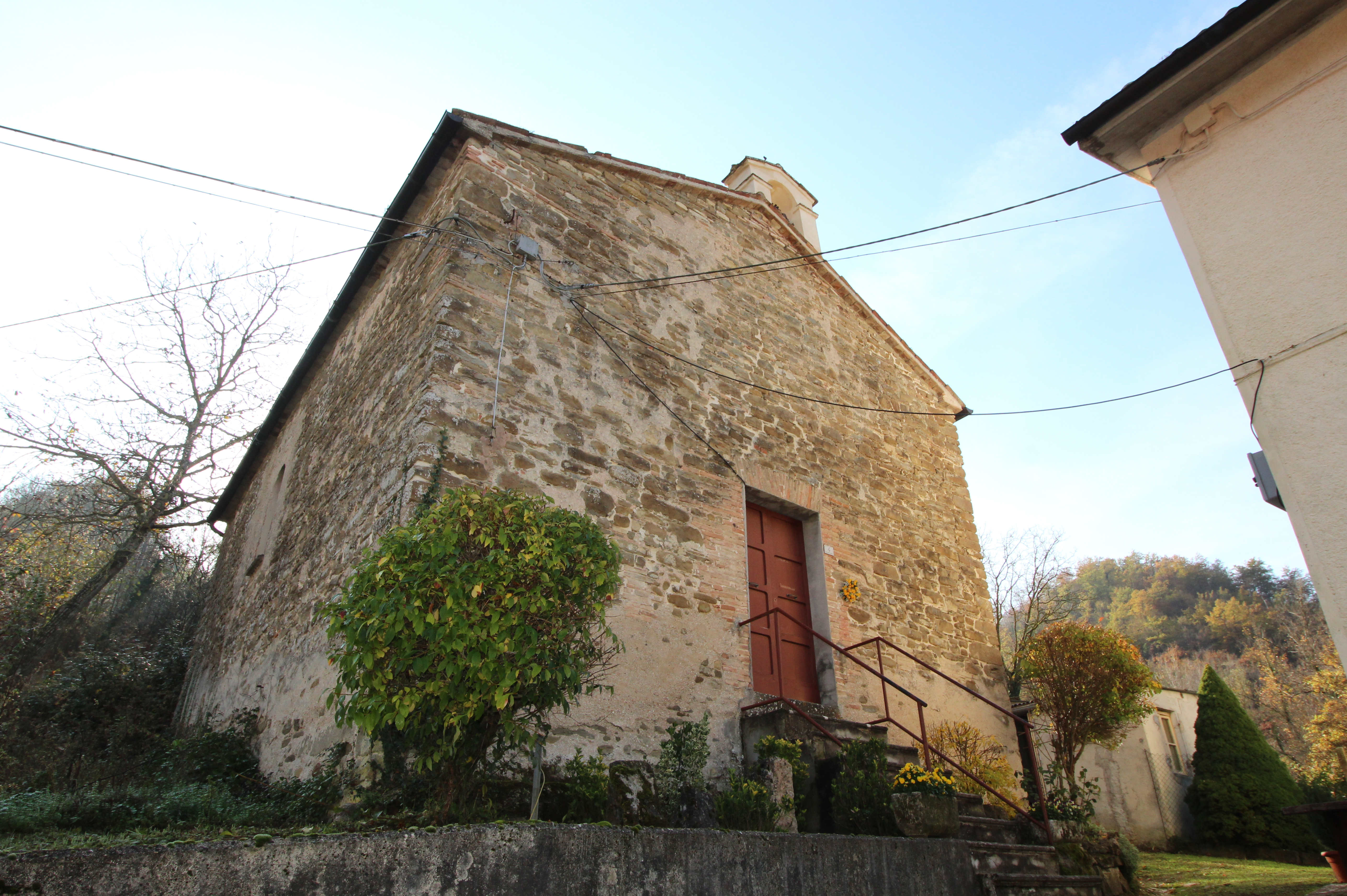 church Madonna del Carmelo (also Madonna del Fiume), Monte Fiume, hamlet of Scheggia e Pascelupo, Province of Perugia, Umbria, Italy